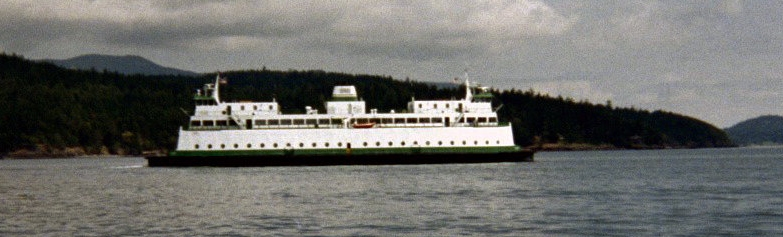 Ferry MV Nisqually on Puget Sound. Source: Taken by Niteowlneils, May 2004.